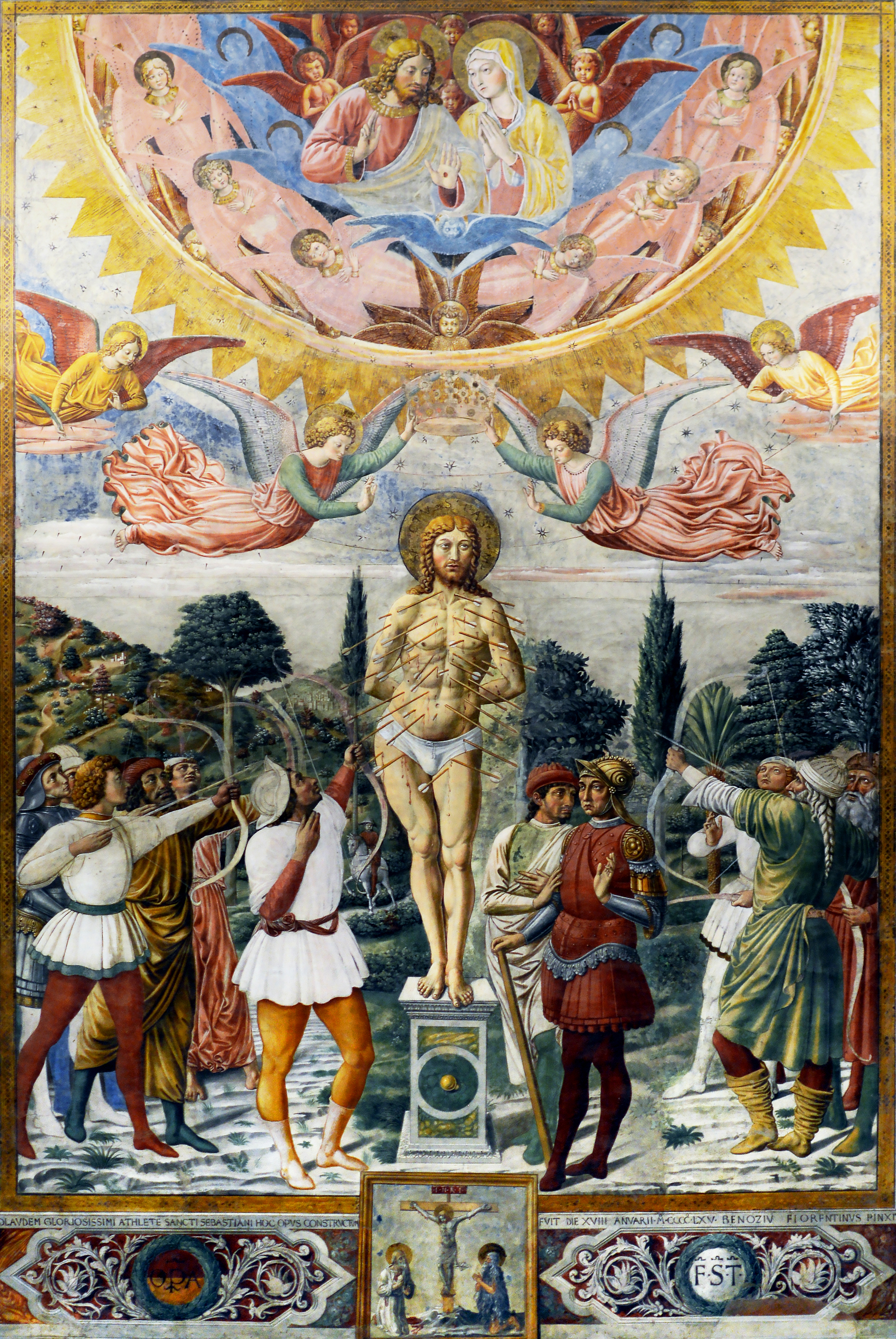 Duomo (San Gimignano)